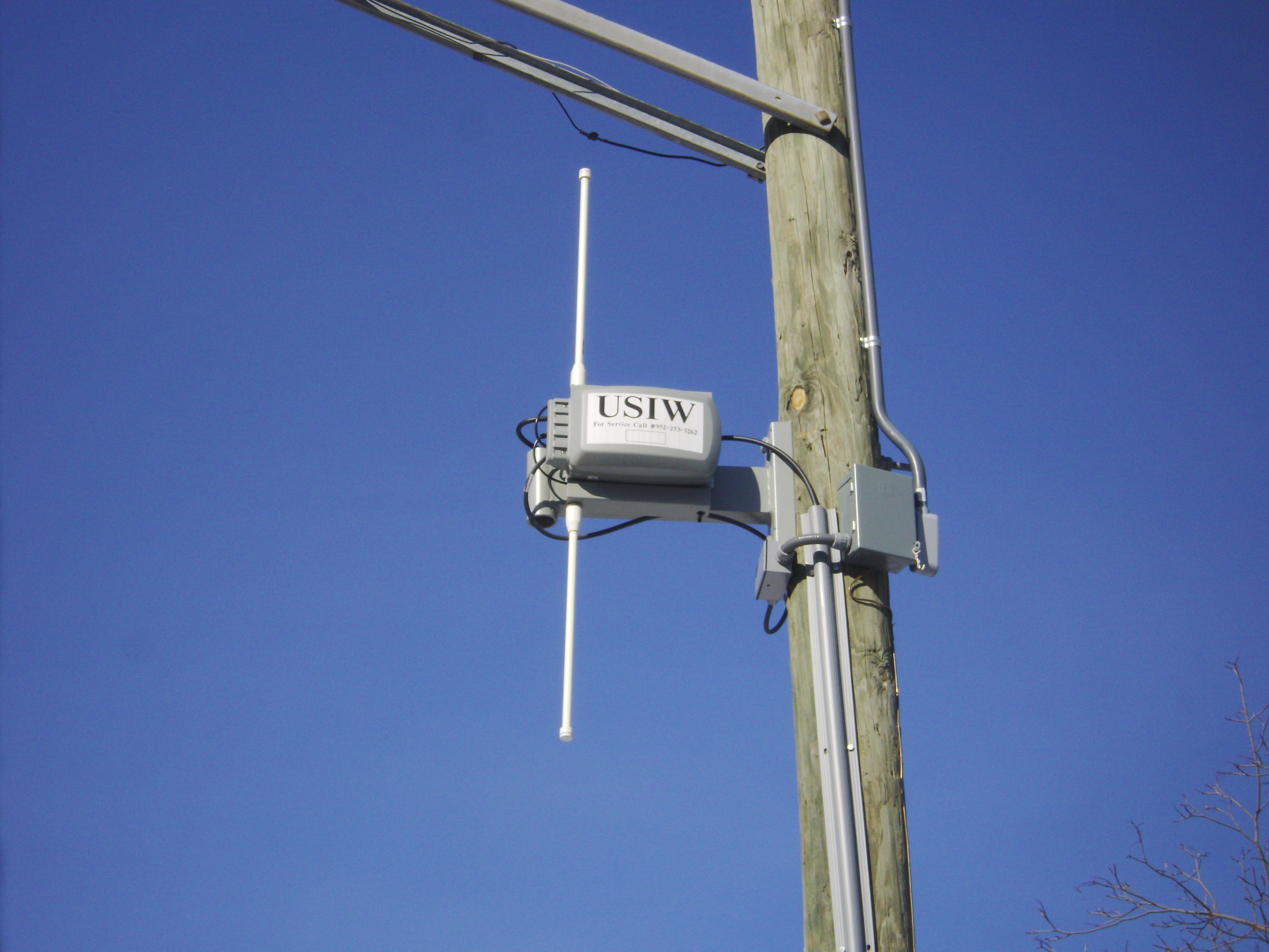 A metro Wi-Fi antenna in Minneapolis, MN. Antennas like these are placed across a metro area to create a wireless mesh network.